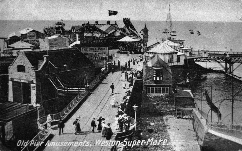 The Old Pier at Weston-super-Mare, Somerset, England. This was used by steam ships sailing on the Bristol Channel and many amusements were installed on the pier so that visitors would spend their mioney their rather than travel further into the town. The building on the left is the lifeboat station.